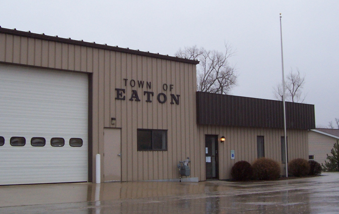 Looking north at the town hall for the township of Eaton, Manitowoc County, Wisconsin, US.